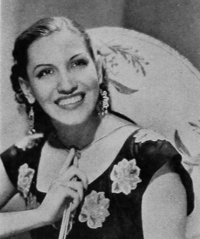 Mexican singer and actress Elvira Ríos in a 1938 photograph published in Motion Picture Daily.